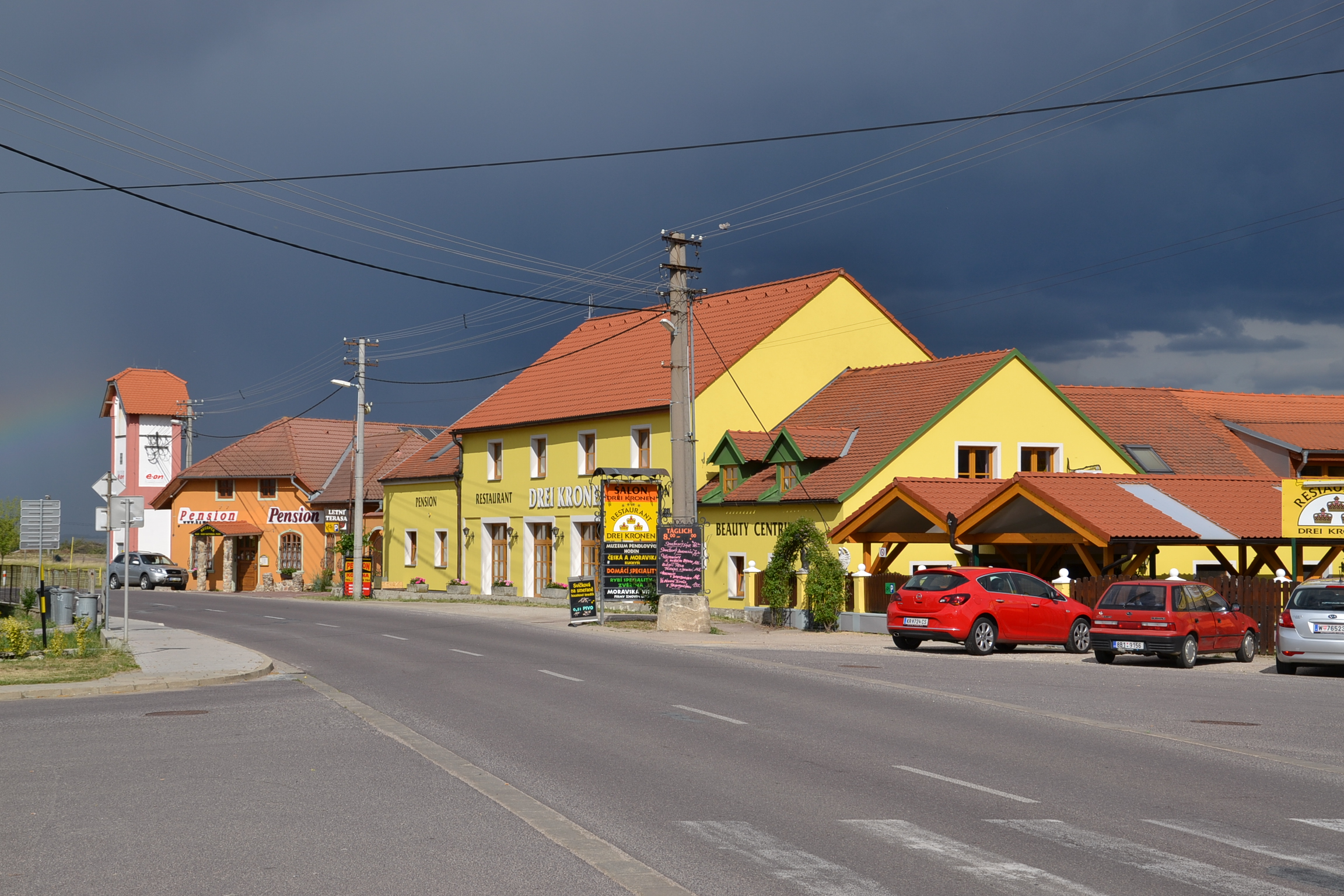 Havraníky (Kaidling), Moravia - restaurant "Drei Kronen"